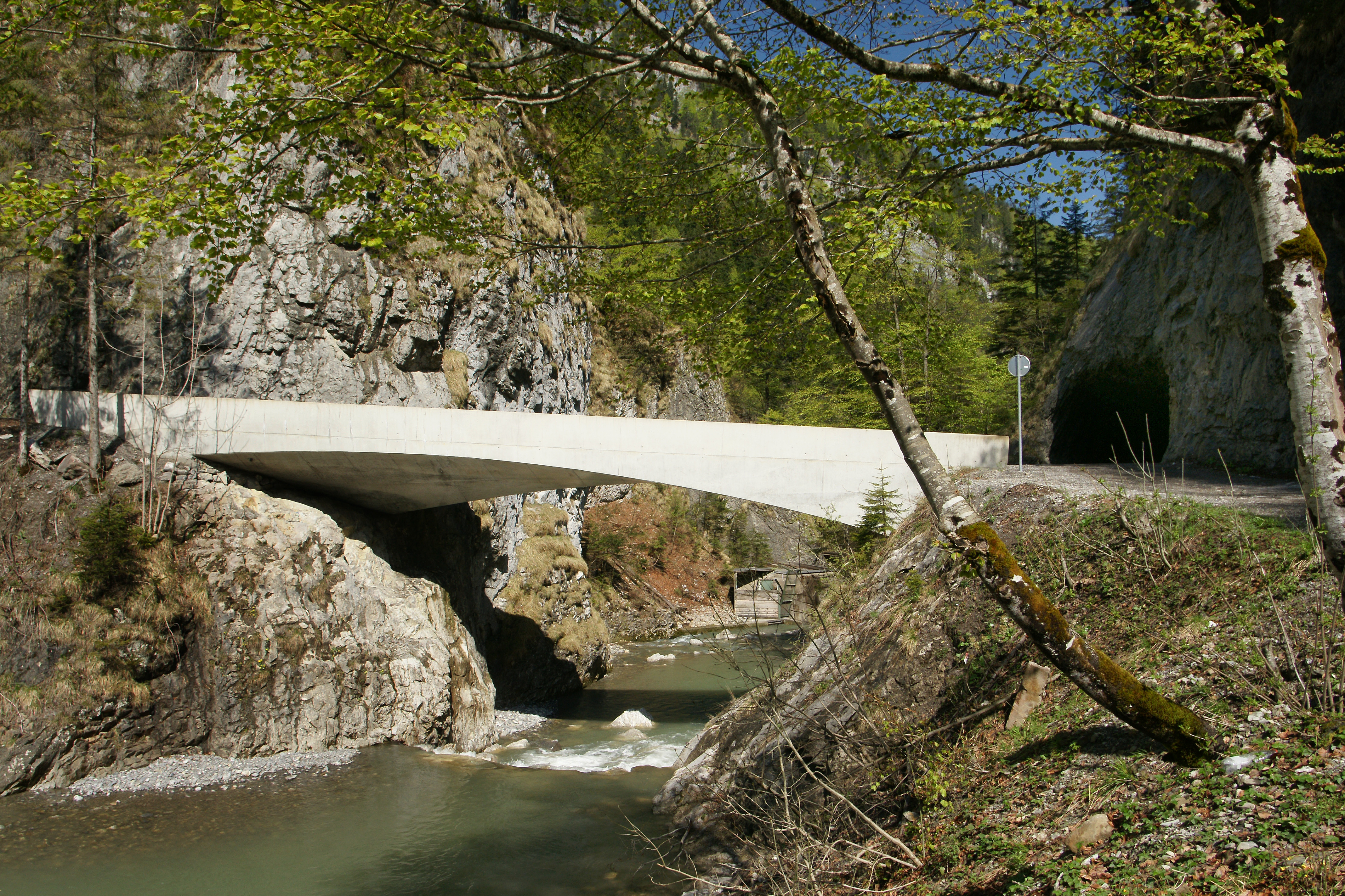 The road from Dornbirn to the mountain village of Ebnit.